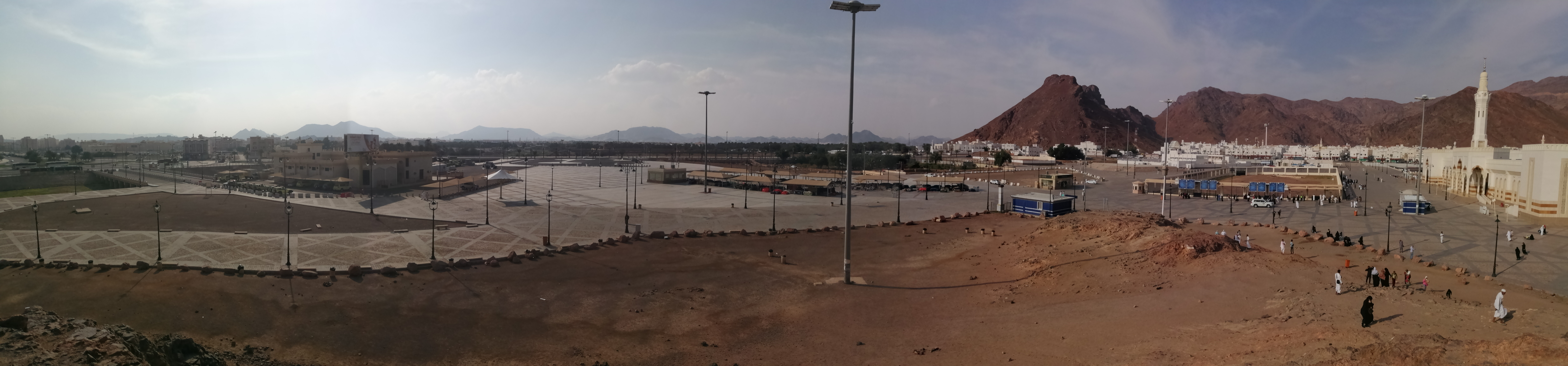 Mount Uhud Panorama